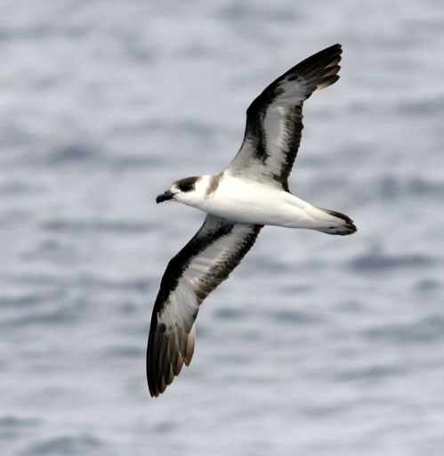 Black-capped Petrel, Pterodroma hasitata, Location: Gulf Stream off of Hatteras, North Carolina, United States